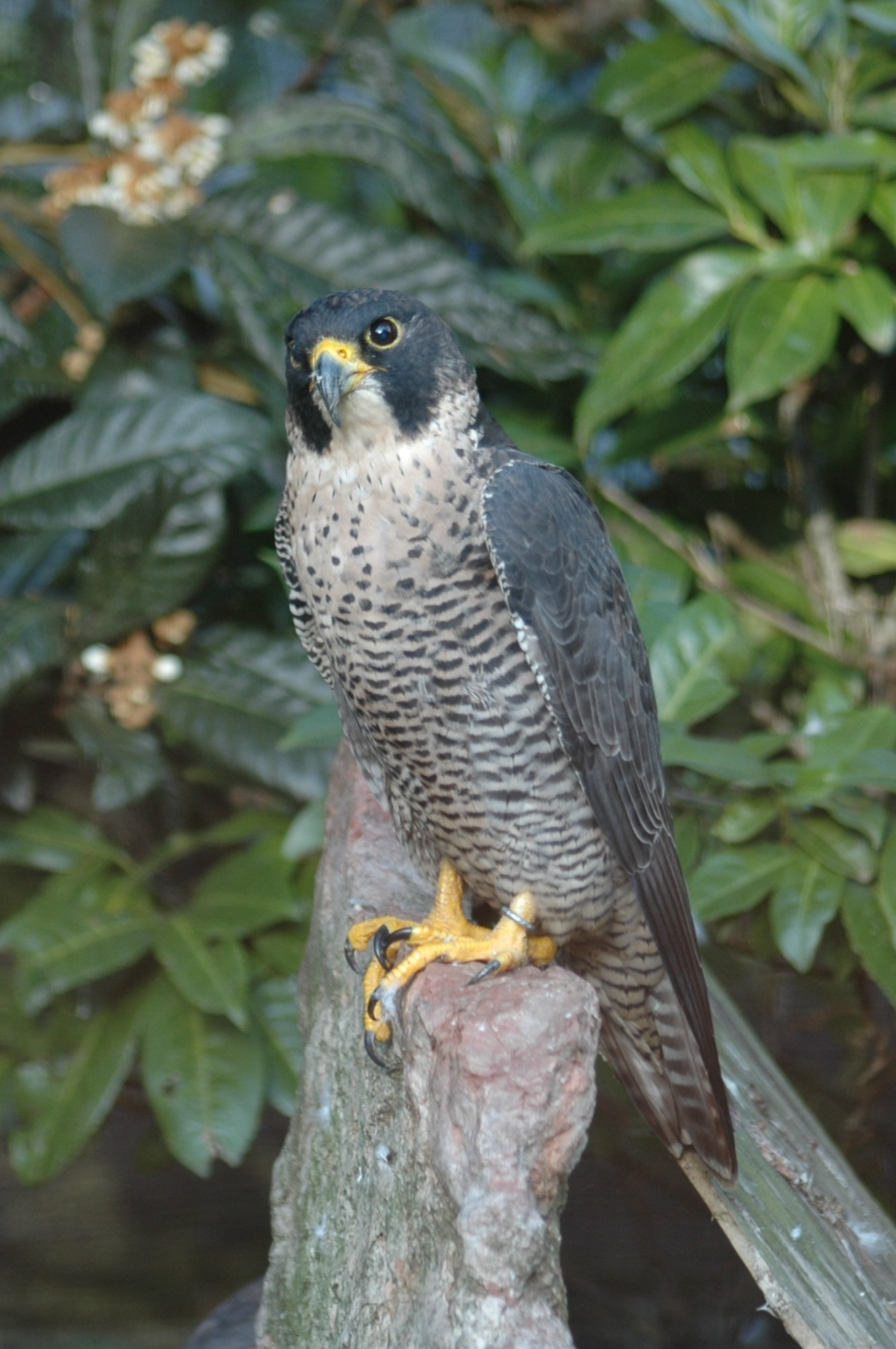 Falco peregrinus, Taken on Covadonga, Asturias, Spain on October 2005